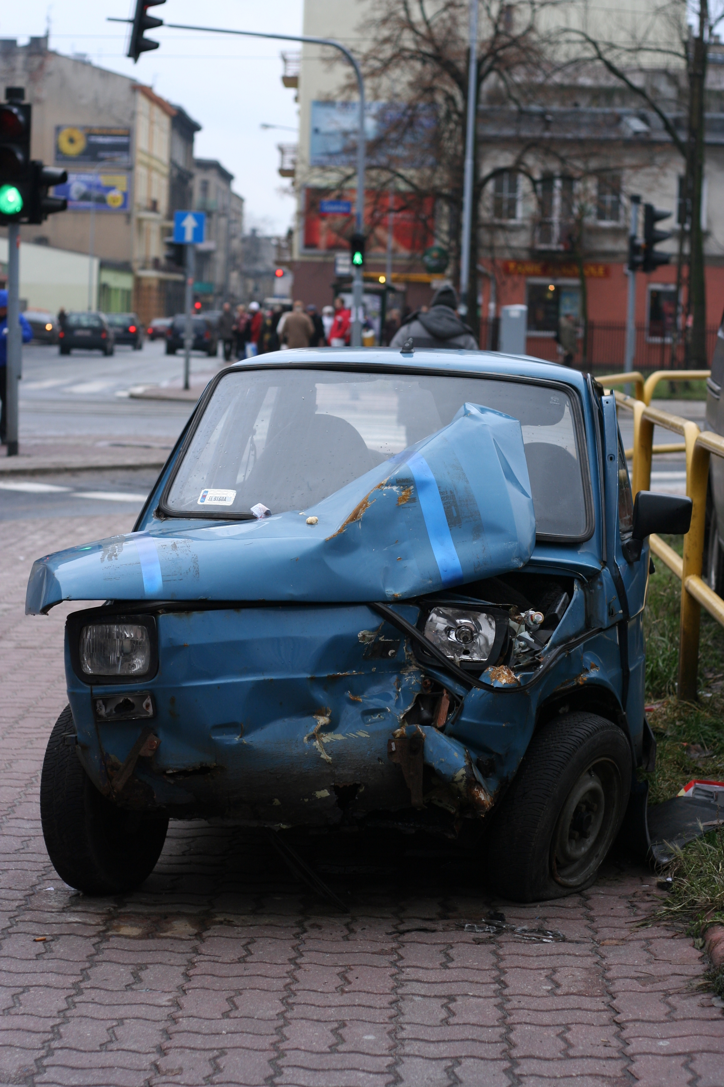 Crashed Polski Fiat 126p FL in Łódź, Poland.